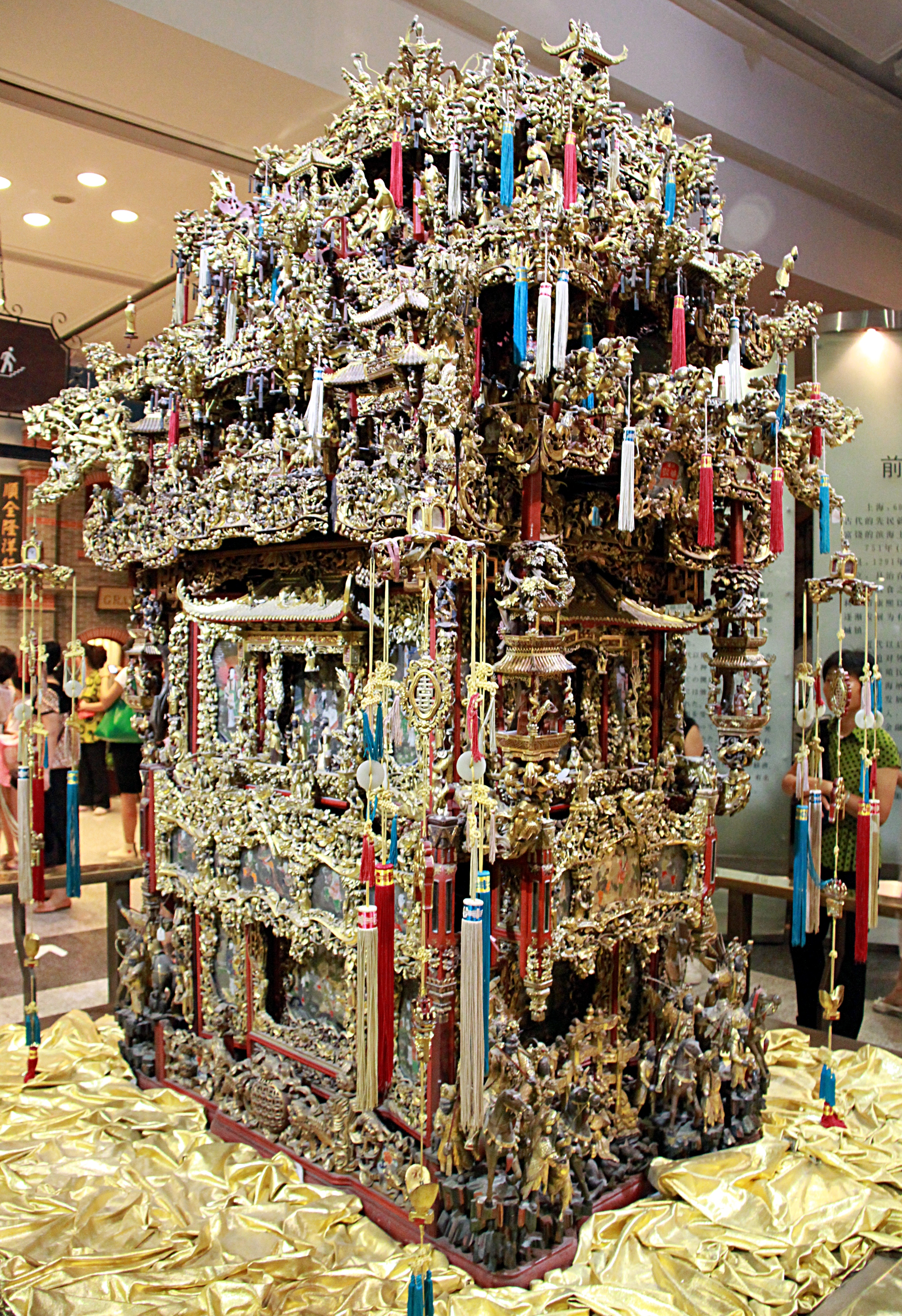 Photgraph of wedding sedan chair in the Shanghai Municipal History Museum, Pudong, Shanghai, China.